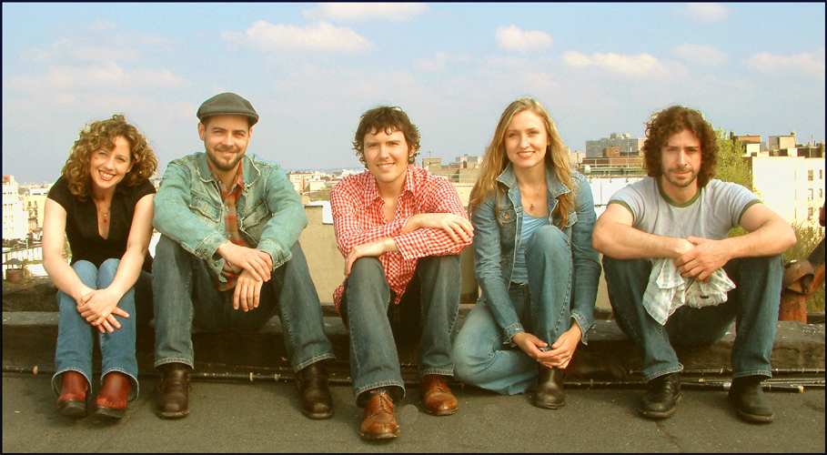 Ollabelle photographed by Anthony Pepitone on April 27, 2005 in Brooklyn, NY